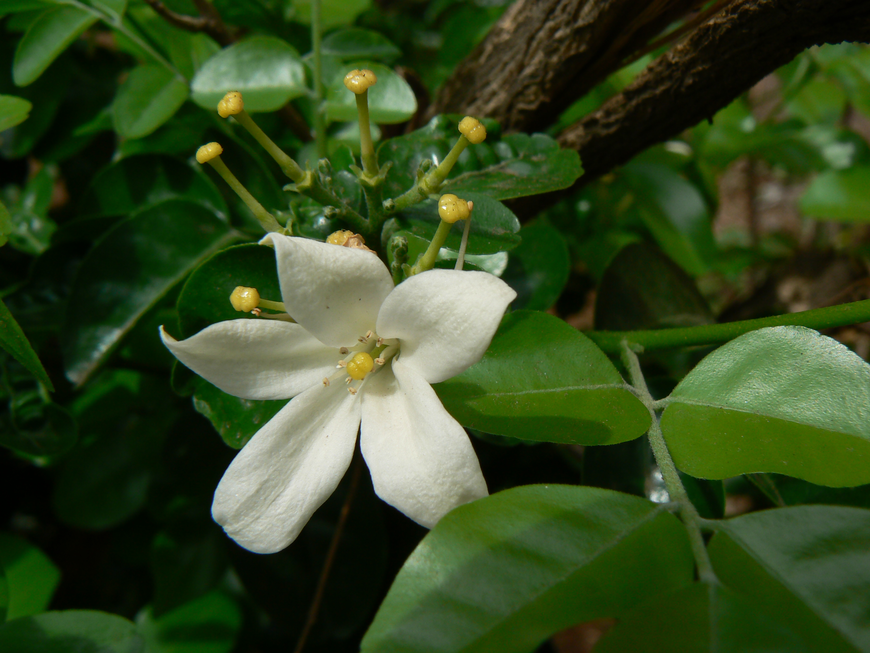 Rutaceae (ruta, or citrus family) » Murraya paniculata mer-RAY-yuh -- named for J A Murray, 18th century Swedish student of Linnaeus pan-ick-yoo-LAY-tuh -- referring to the flower clusters (panicles) commonly known as: Chinese box, cosmetic bark tree, Hawaiian mock orange, Indian box tree, mock orange, orange jasmine, satin wood • Assamese: kamini Bengali: কামিনী kamini • Gujarati: જાસવંતી jaswanti, કામીની kamini • Hindi: कामिनी kamini • Kannada: ಕಾದು ಕರಿಬೇವು kadu karibevu • Malayalam: കാട്ടു കറിവേപ്പ് kaattu kariveepp, മരമുല്ല maramulla • Manipuri: কামিনী কুসুম kamini kusum • Marathi: कुन्ती or कुंटी kunti, पांढरी pandhari • Tamil: கருவேப்பிலை karu-veppilai, கடற்கொஞ்சி katar-konci, கொஞ்சி konci • Telugu: నాగగొలంగ naga-golanga Native to: s Asia, n Australia; naturalized / cultivated elsewhere References: Flowers of India • Wikipedia • NPGS / GRIN • ENVIS - FRLHT • DDSA